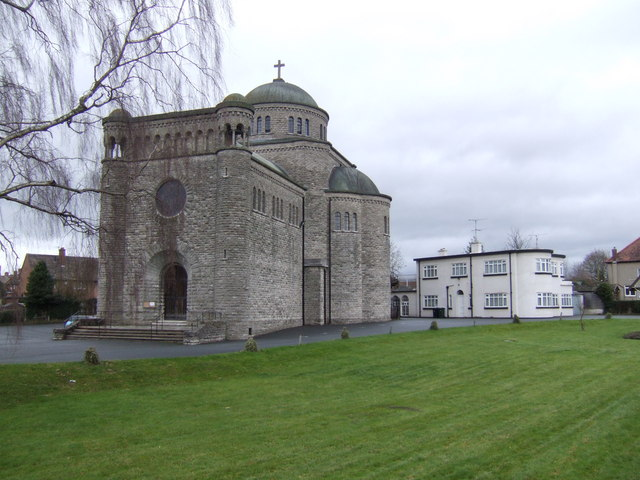 St. Peter's Catholic Church, Ludlow A building in the french style with what looks like an art deco priest's house.